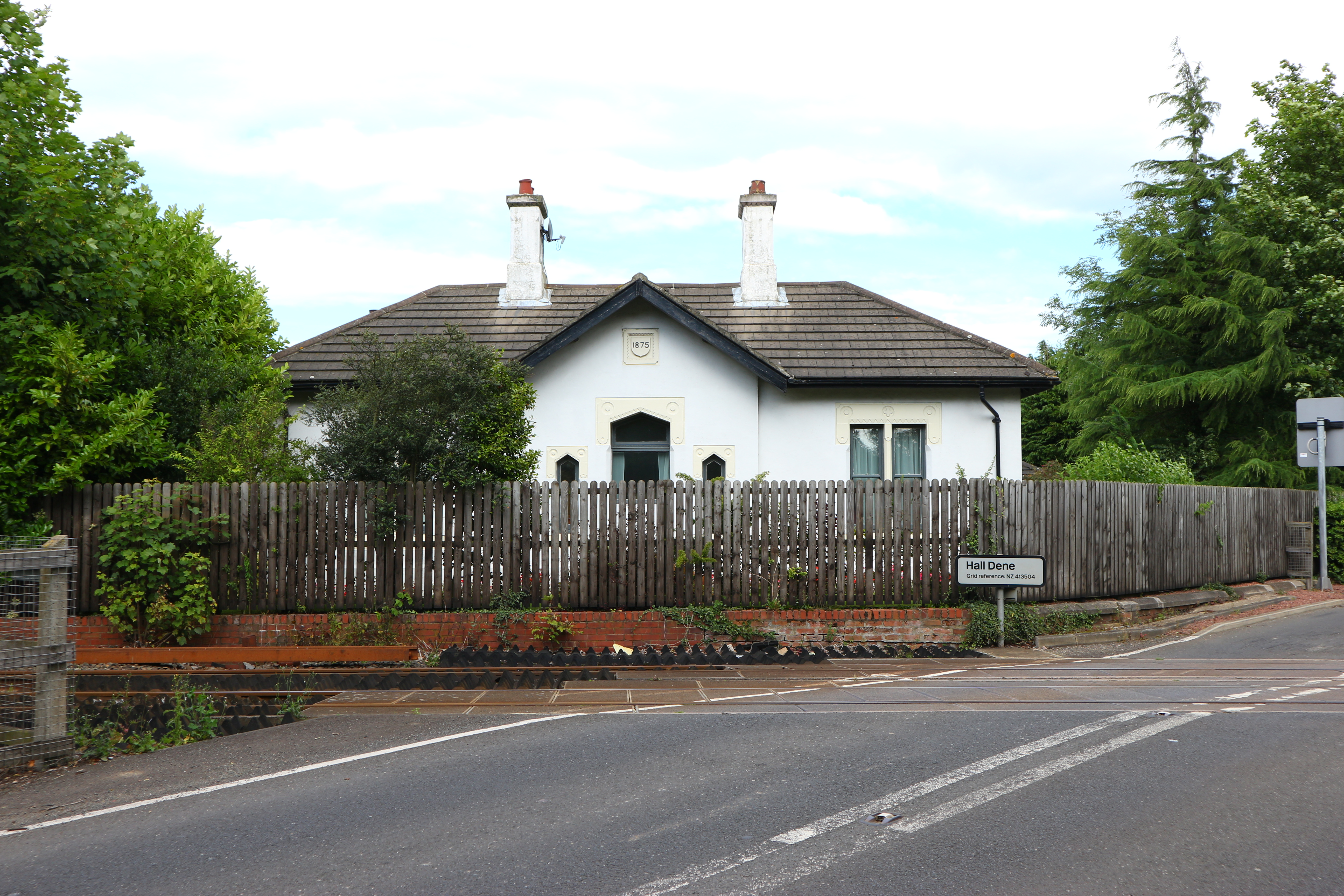 View north east across Hall Dene Level Crossing on the Durham Coast Line. The building in the centre of the shot was the main station building for Seaham Hall Dene railway station which was a private station built to serve Seaham Hall, the then home of the Marquess of Londonderry. The station closed in 1923.